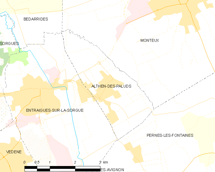 Map of French municipality Althen-des-Paluds